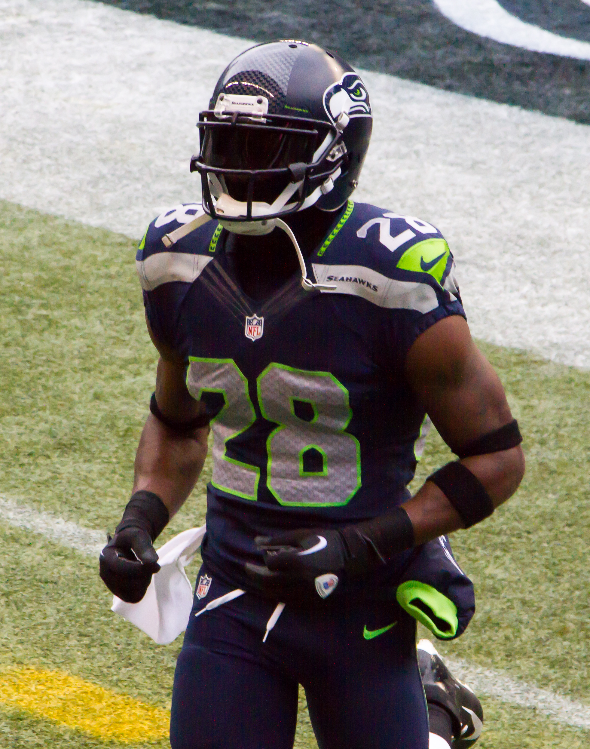 Walter Thurmond, Seahawks vs Rams 12.29.13